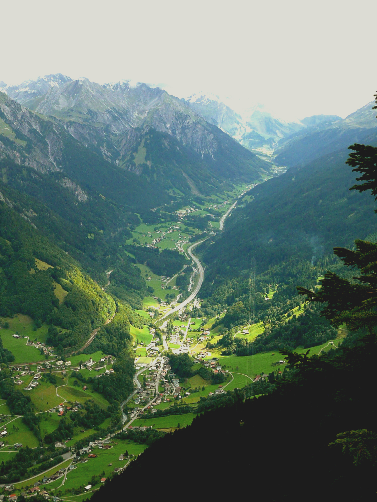 Klostertal and Dalaas under the S16 tunnel - view to the East towards the Flexenpass